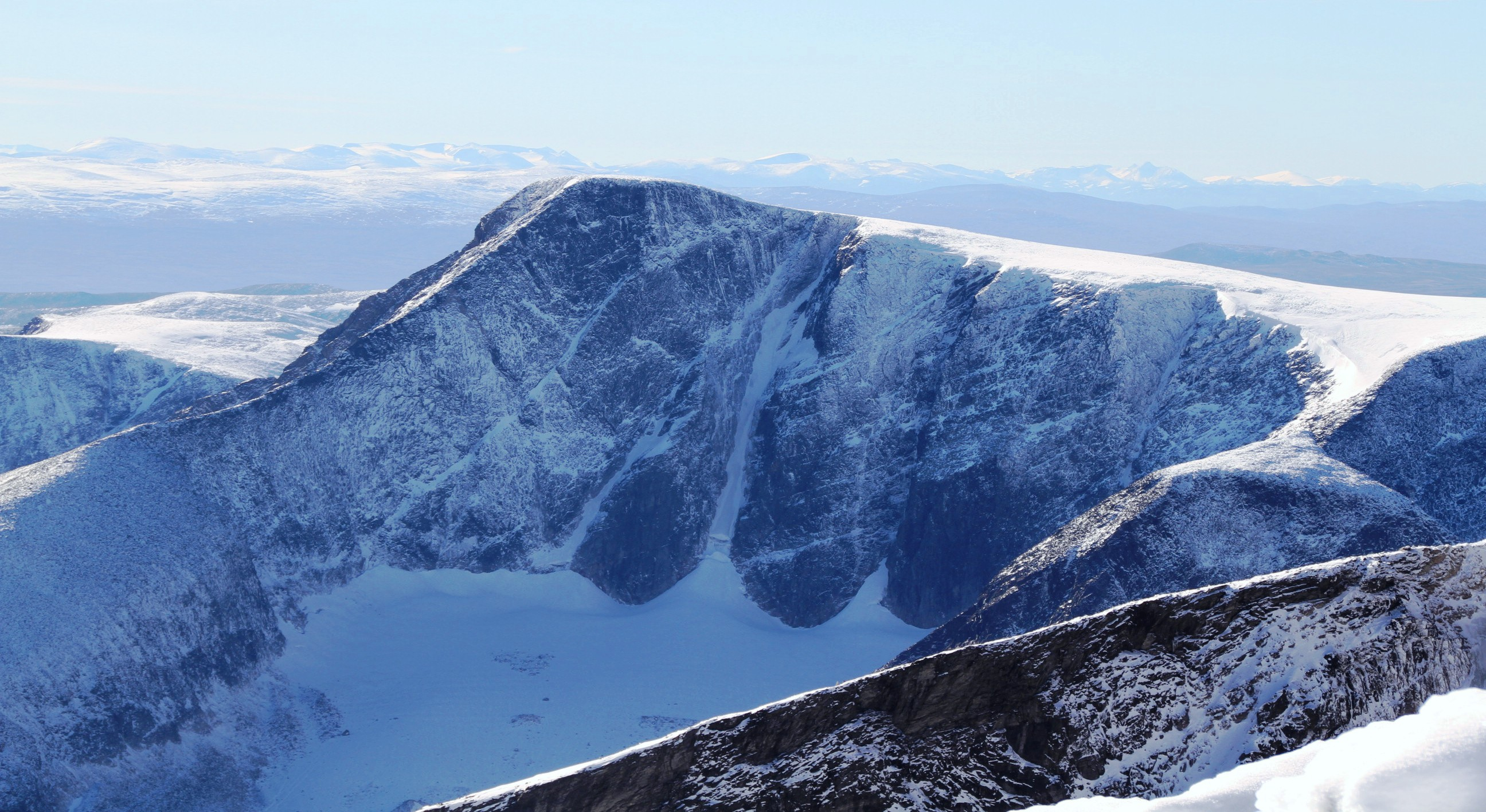 Image of Mountains in the Southern part of Lesja municipality - Dovrefjell plateaux - Central Norway.